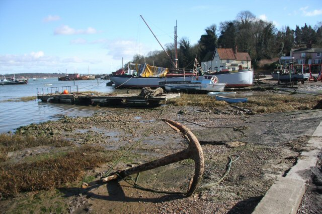 Pin Mill shoreline Boats of various sizes line the foreshore of the River Orwell at Pin Mill, with the famous 'Butt and Oyster' pub in the background.